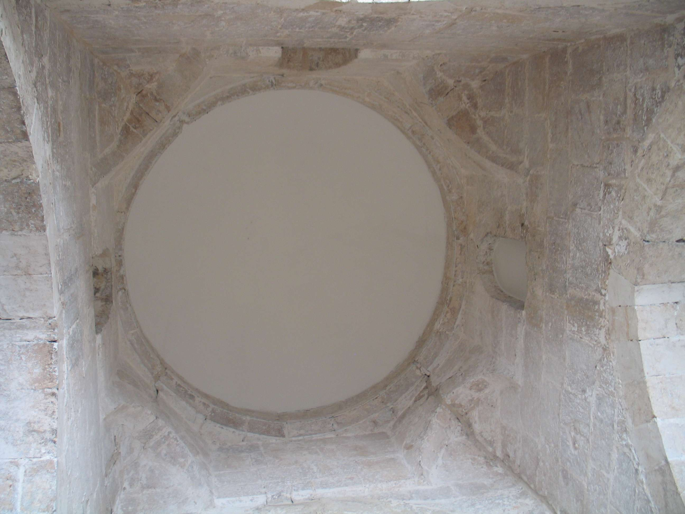 Rabbi Gamliel's tomb (Mausoleum of Abu Huraira), Yavne.